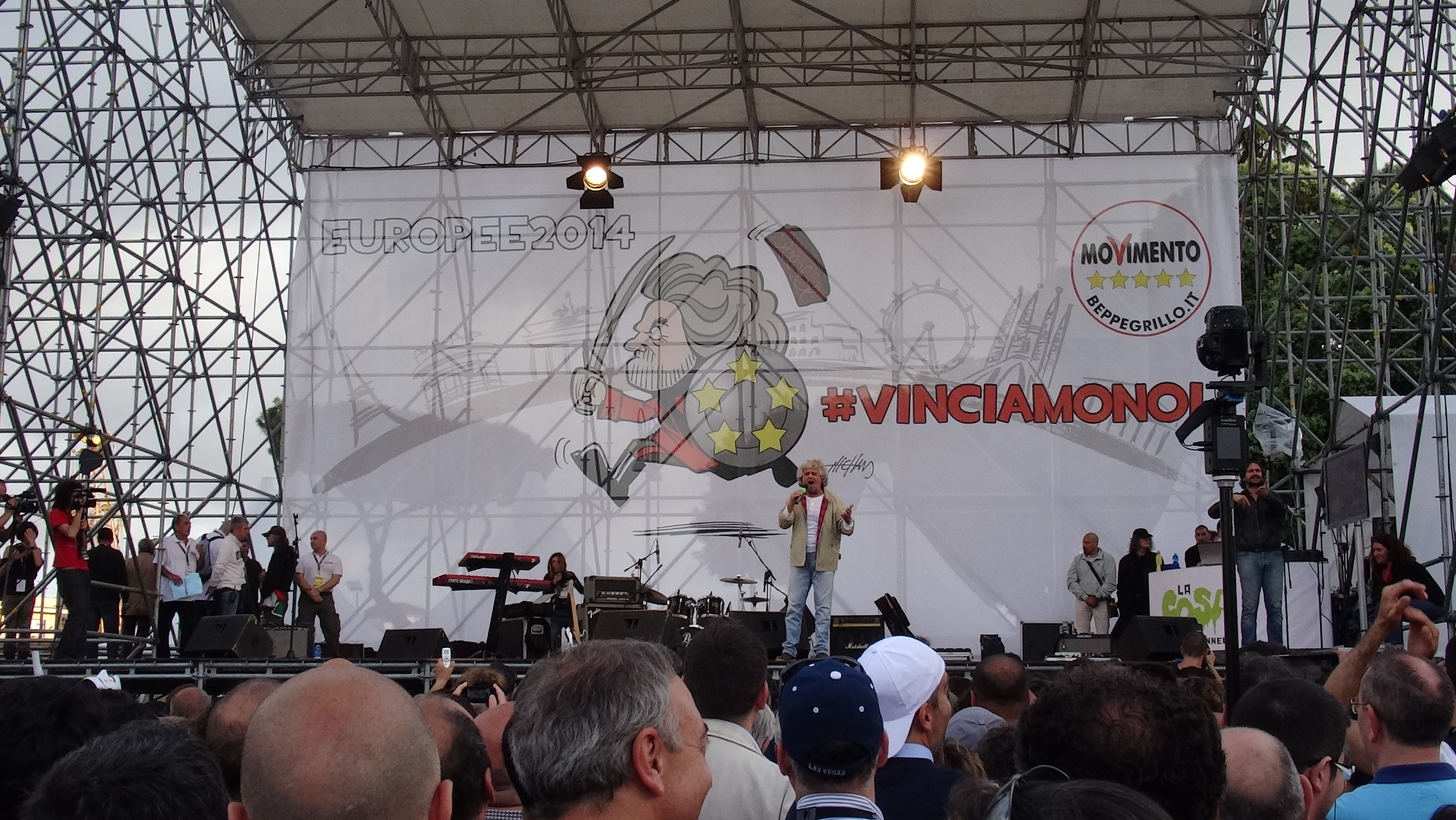 Beppe Grillo in piazza san giovanni in laterano 23 maggio 2014